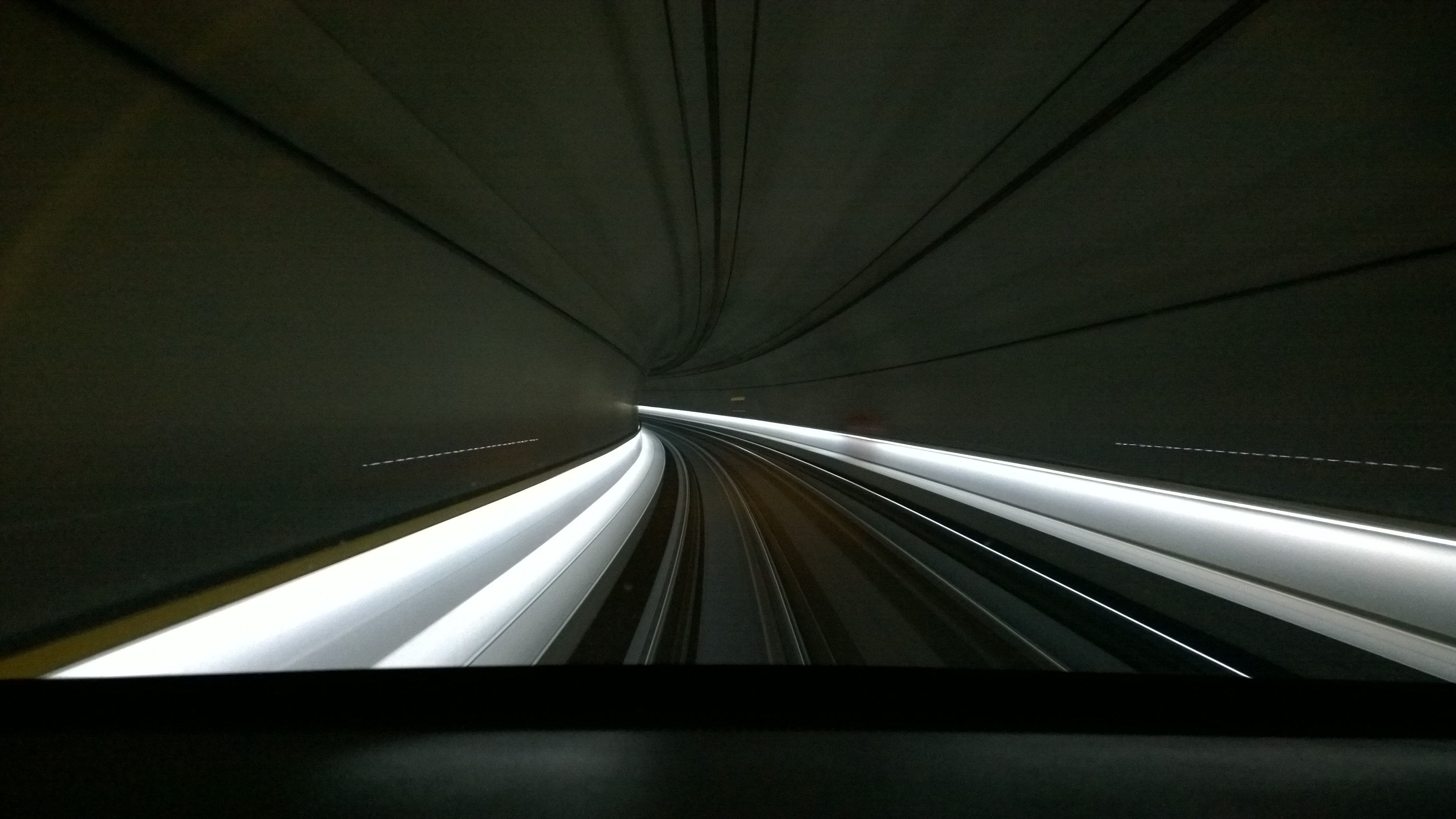 Weinberg railway tunnel as viewed by the train operator